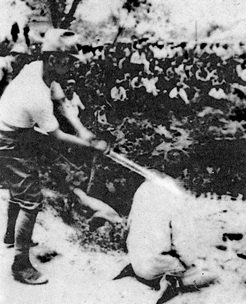 Photo of The "Shame" Album, showing the atrocities committed by the Japanese in Nanjing Massacre. It was one of the 16 photos preserved by a Chinese working in a photostudio at that time.